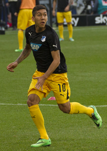 Roberto Firmino with Hoffenheim in 2014.